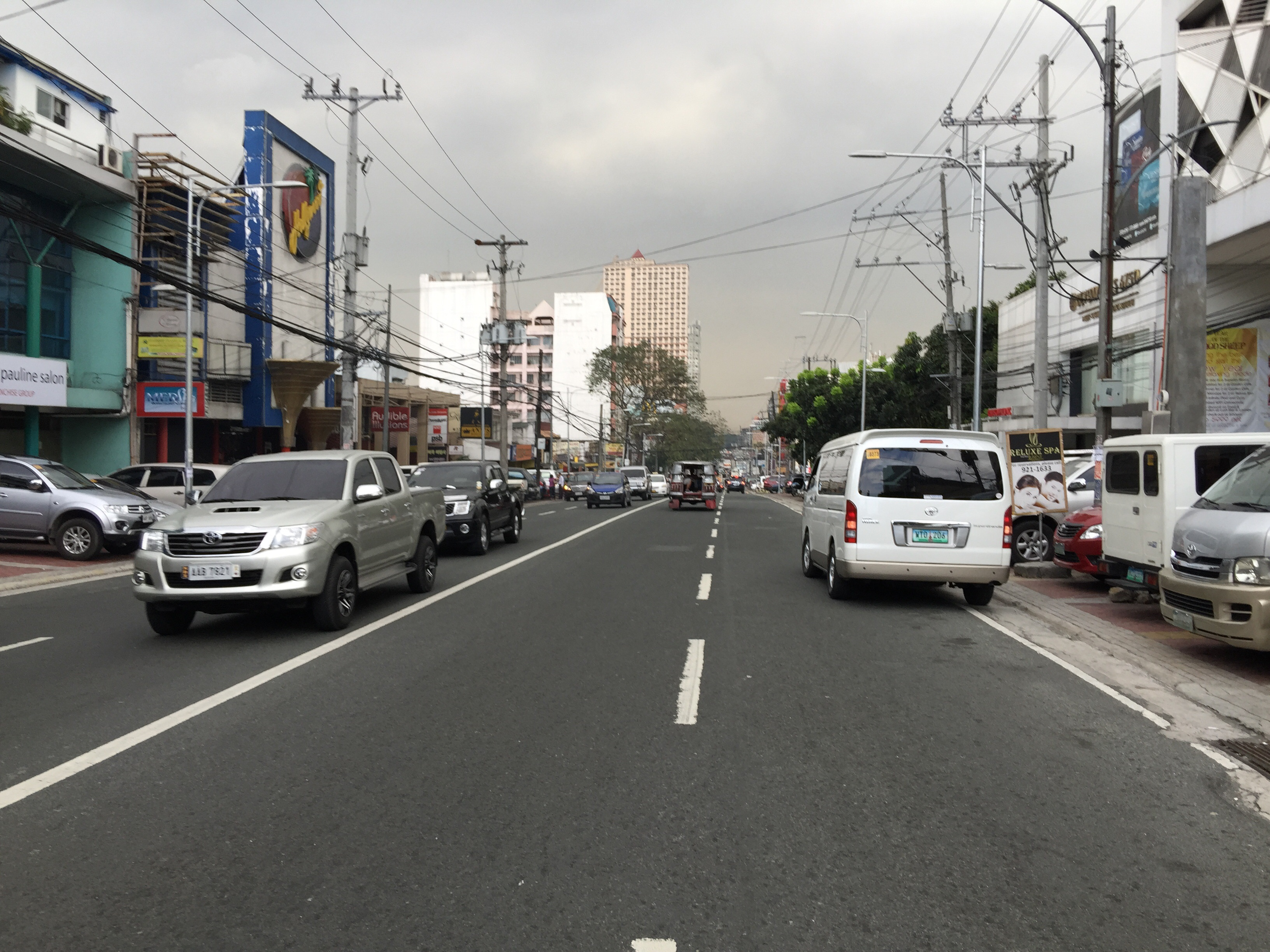 Timog Avenue looking west near Scout Tuason Street in South Triangle, Diliman, Quezon City